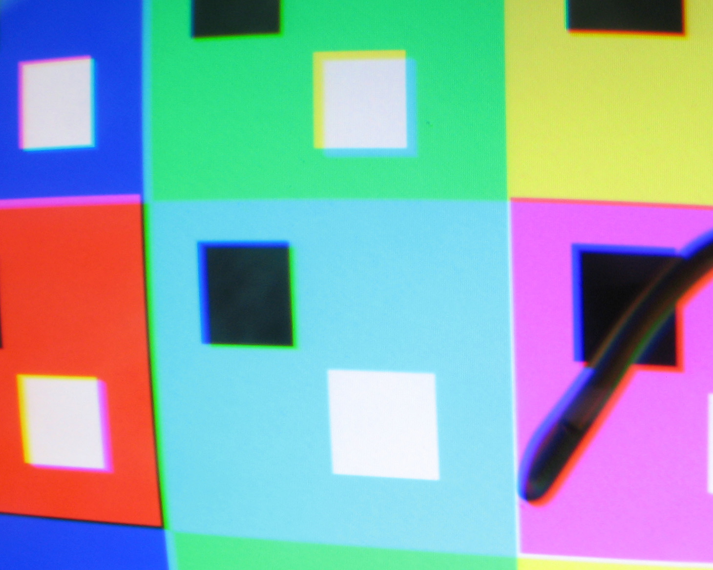 Cropped close-up example from File:Nearsighted color fringing -9.5 diopter - Canon PowerShot A640 thru glasses - overview.jpg See also: Overview image of distortions Test bitmap used to create these examples. Example of how extremely nearsighted people experience color fringing and distortions if not looking directly through the center of their glasses. This was created by setting the manual zoom on a Canon PowerShot A640 to be nearsighted, then pointing the camera through the eyeglasses turned backwards to correct the intentional myopia of the camera lens. Through the sides of the lens, the colors are prismatically shifted and distorted, resulting in seeing color fringing that does not exist. These color fringes make accurate and precision drawing and painting difficult for a person wearing glasses. Several color-box positioning mistakes were made while trying to create the example image for this demonstration. Only zooming in at high detail to enlarge edges is sufficient for dealing with these optical color errors. Extreme nearsighted users of contact lenses do not see these color fringes because the contact lens moves with the cornea and color rendering is always done through the center of the contact lens. (Presumably, optical materials of lower index can result in better color rendering, however I have been unable to find a source for pure glass eyeglass lens to verify this claim.)